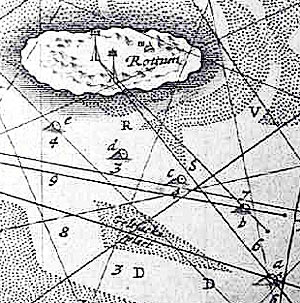 Old seamap from before 1800 with the island Rottum and two "kapen" (some sort of beacon for ships)